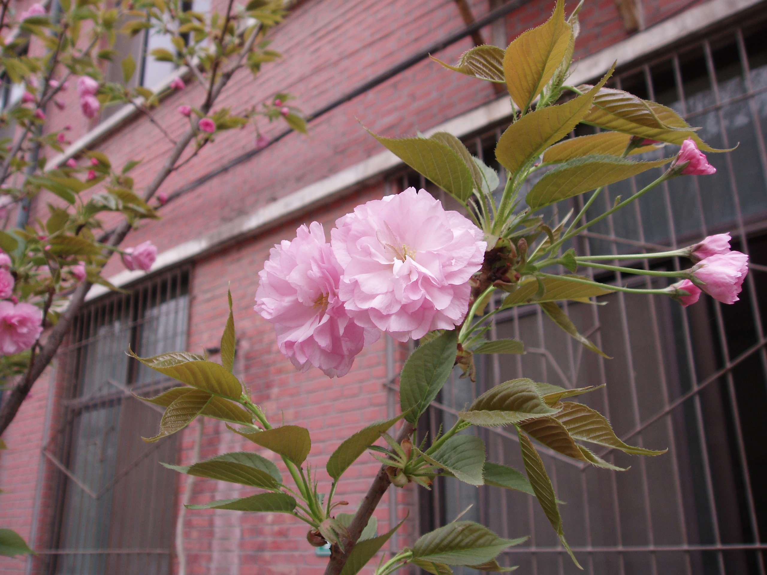 Crab apple flowers